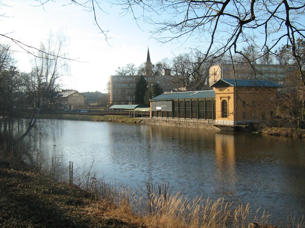 View of Silherovice village